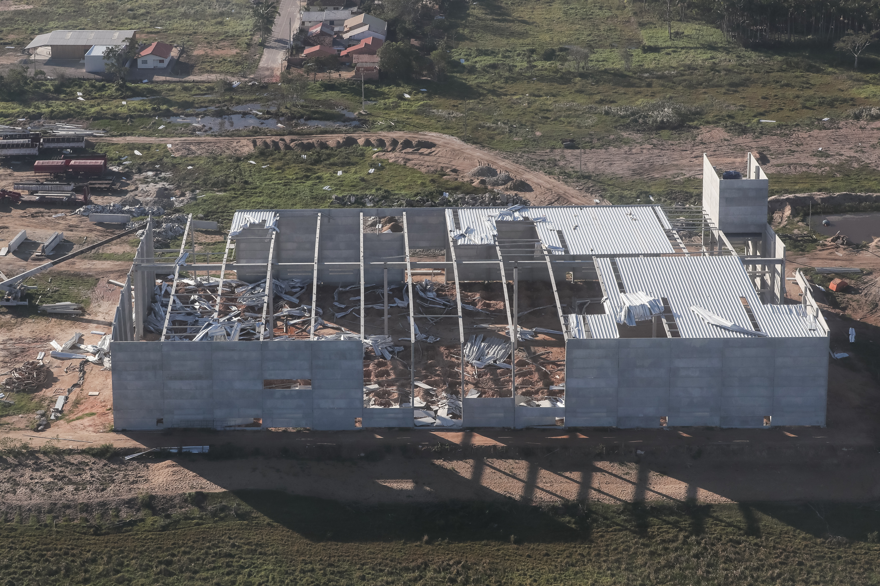 (Florianópolis - SC, 04/07/2020) Partida para Sobrevoo sobre áreas atingidas por ciclone. Foto: Isac Nóbrega/PR